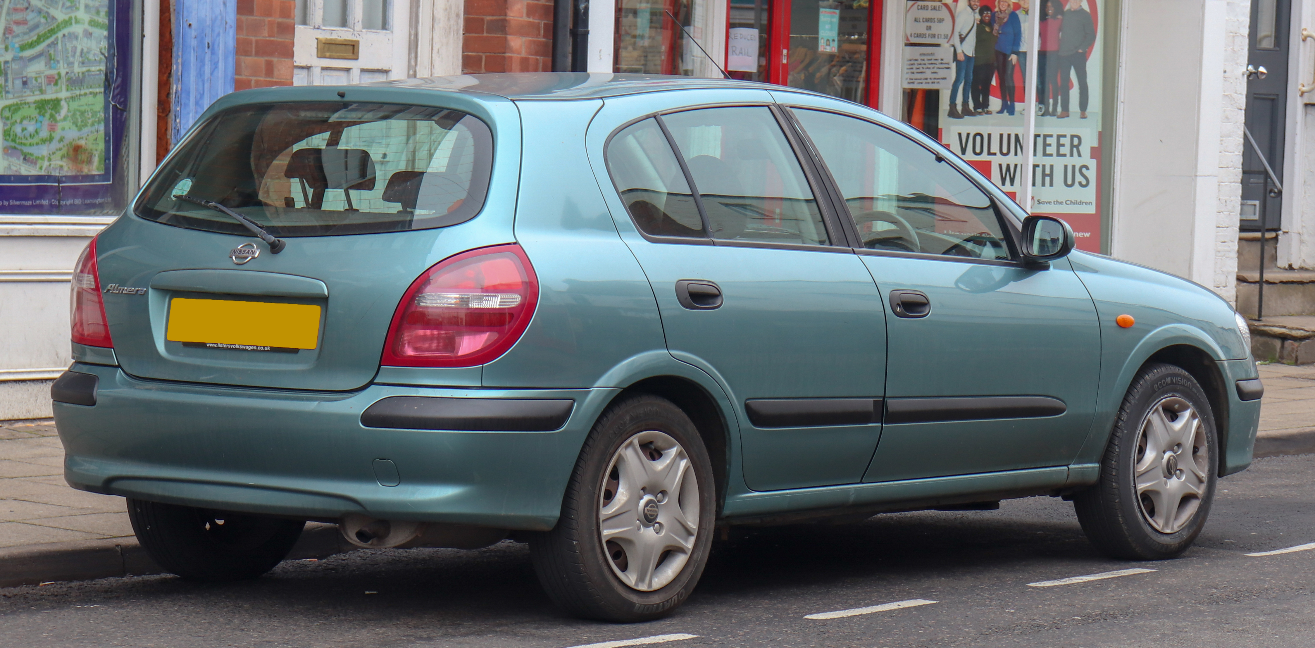 2003 Nissan Almera E 1.5 Rear Taken in Leamington Spa